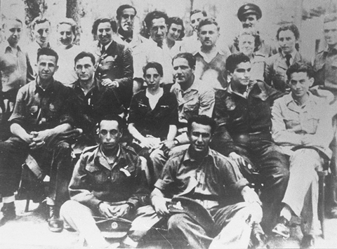 Group of Jewish parachutists under British command including Haviva Reik (center), who was sent into Slovakia. Palestine, wartime